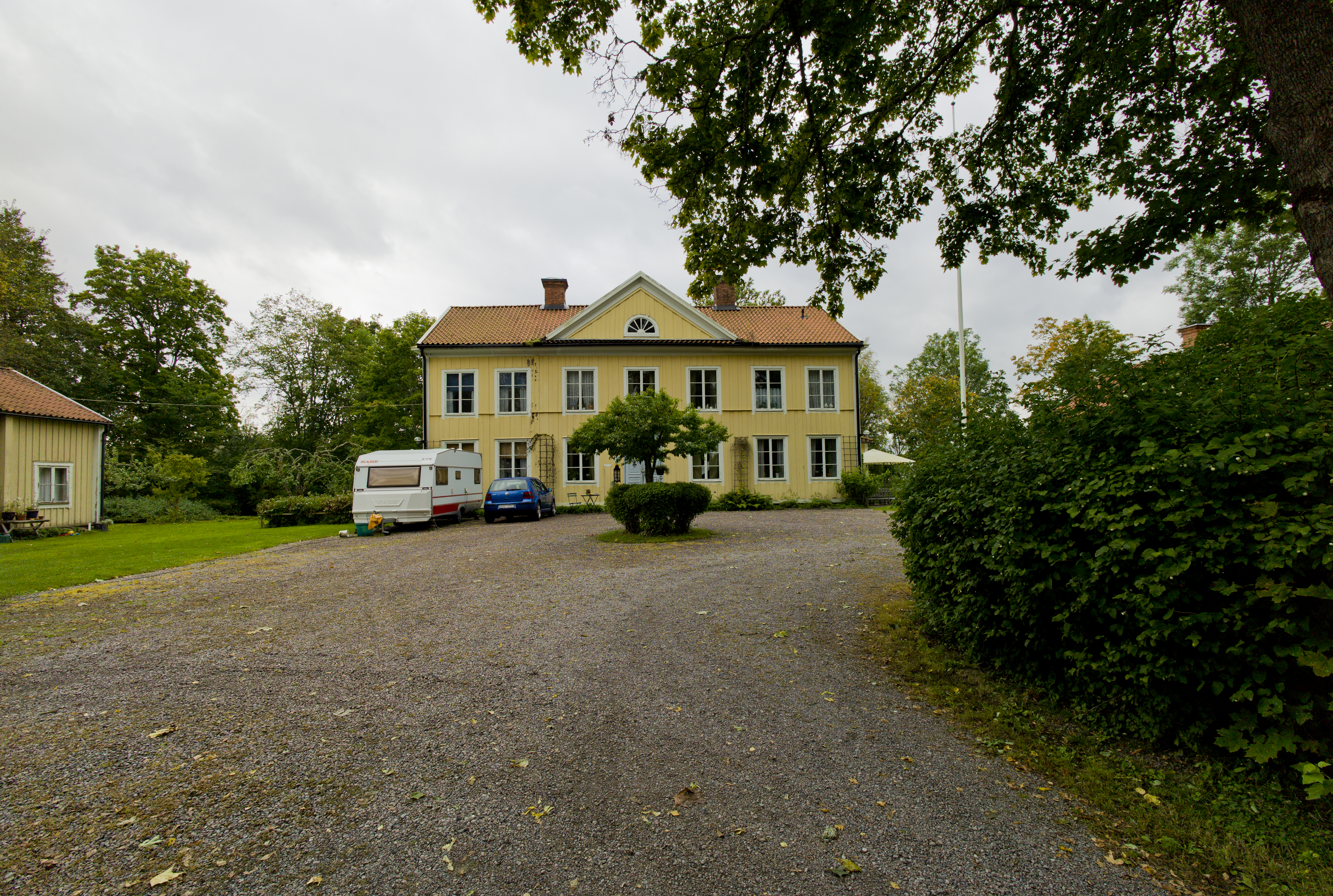 Vänge Rectory